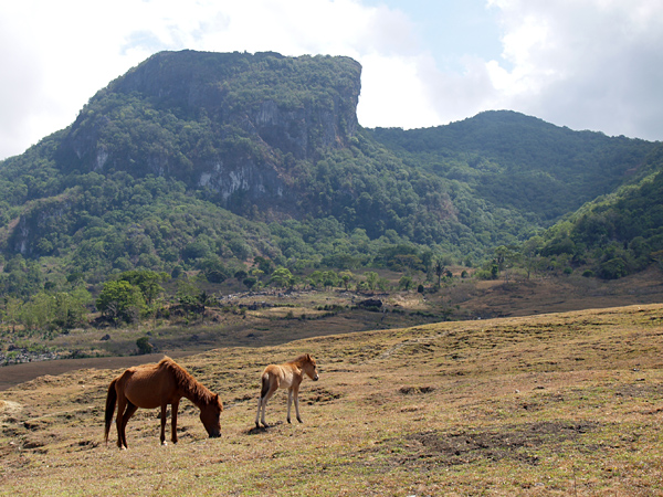 Foal and mom in Viqueque mountains. East Timor